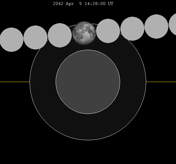 April 2042 lunar eclipse chart of moon's path through the earth's shadow. thumb